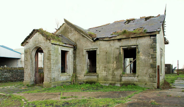 Old railway station, Ardglass (2). See 203715. After another 3½ years the disused station is still there and not significantly changed.